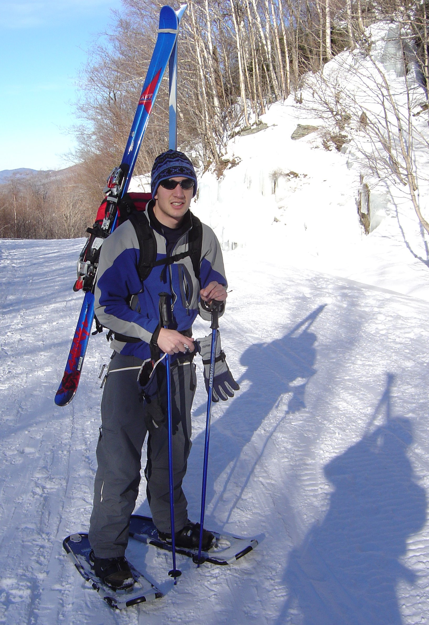 A snowshoer packing downhill (alpine) skis for a trip where both will be used in Smuggler's Notch, Vermont